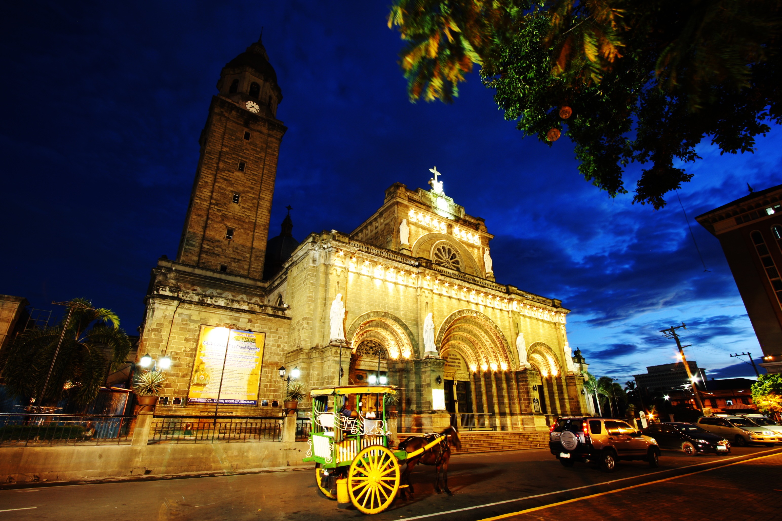 A shot of Manila Cathedral as the night breaks